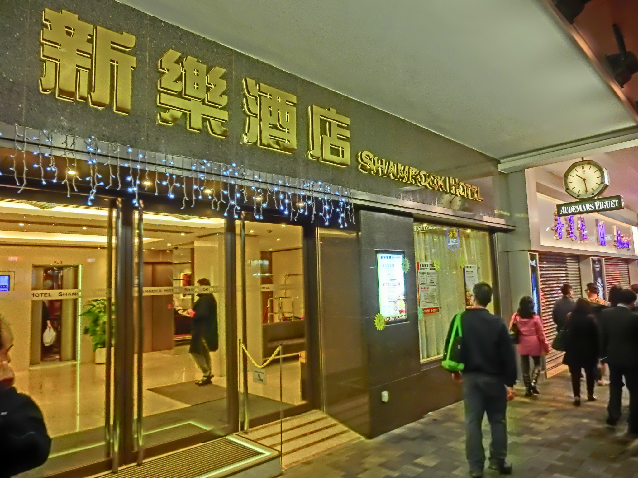 Nathan Road, Jordan, Hong Kong